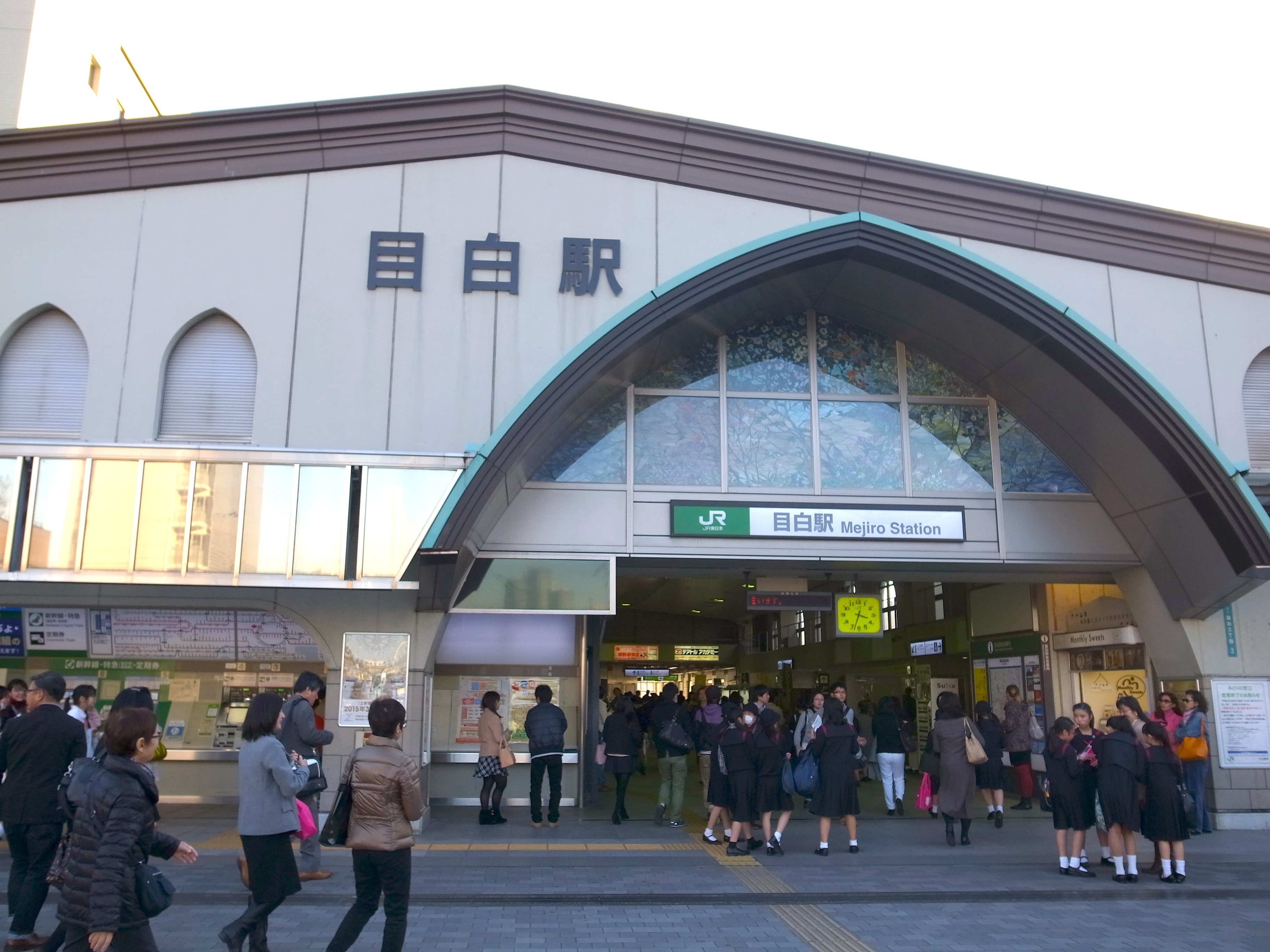 Meijiro Station